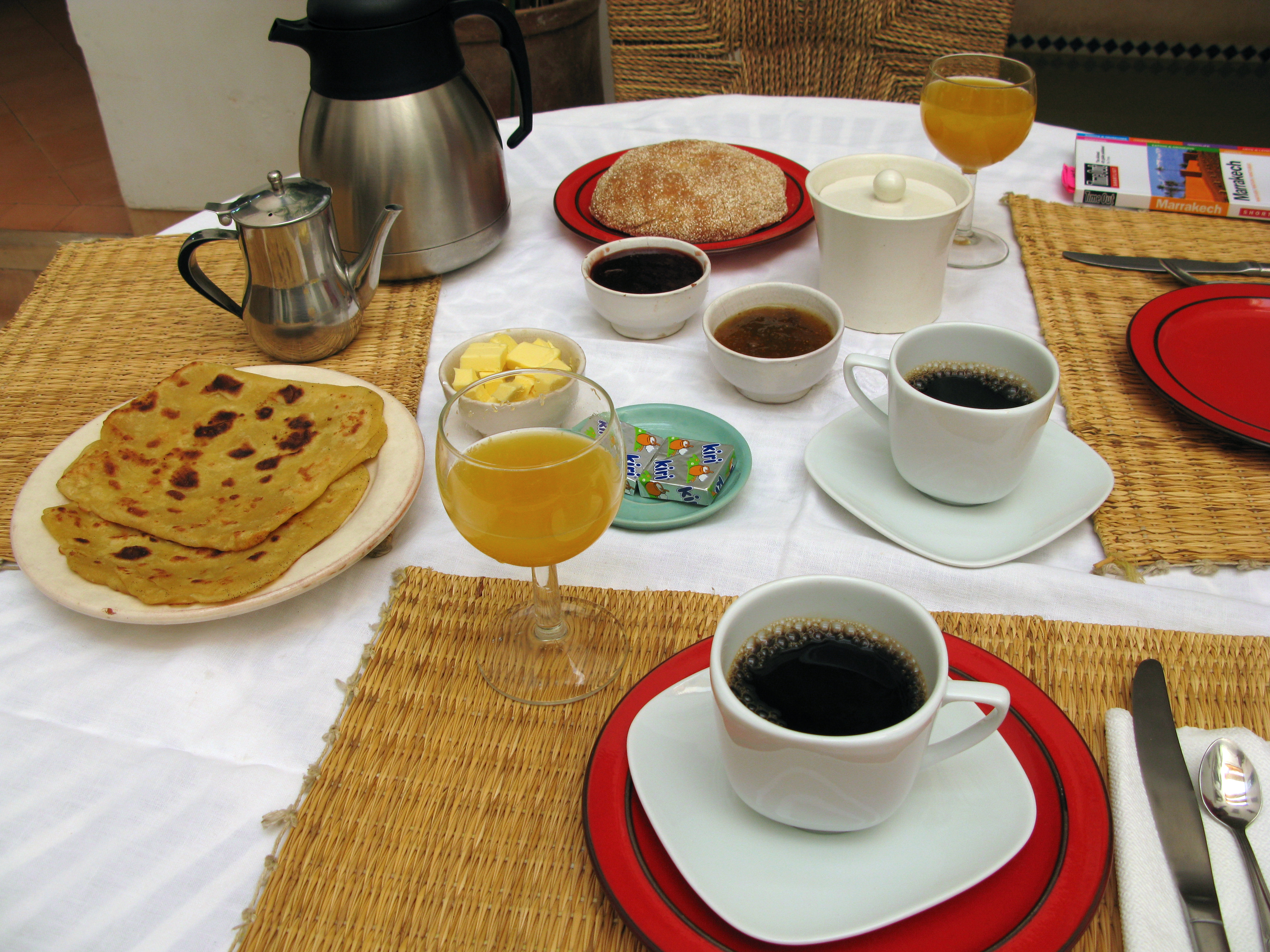 fresh bread and pancakes with fig jam